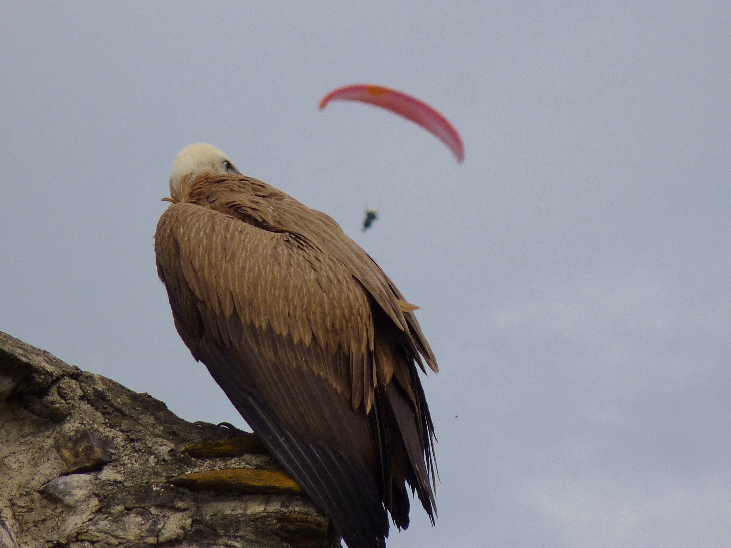 Gyps fulvus - there is disagreement if pragliding disturbs wild animals